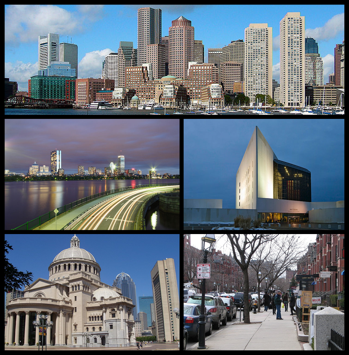 Collage of Boston.